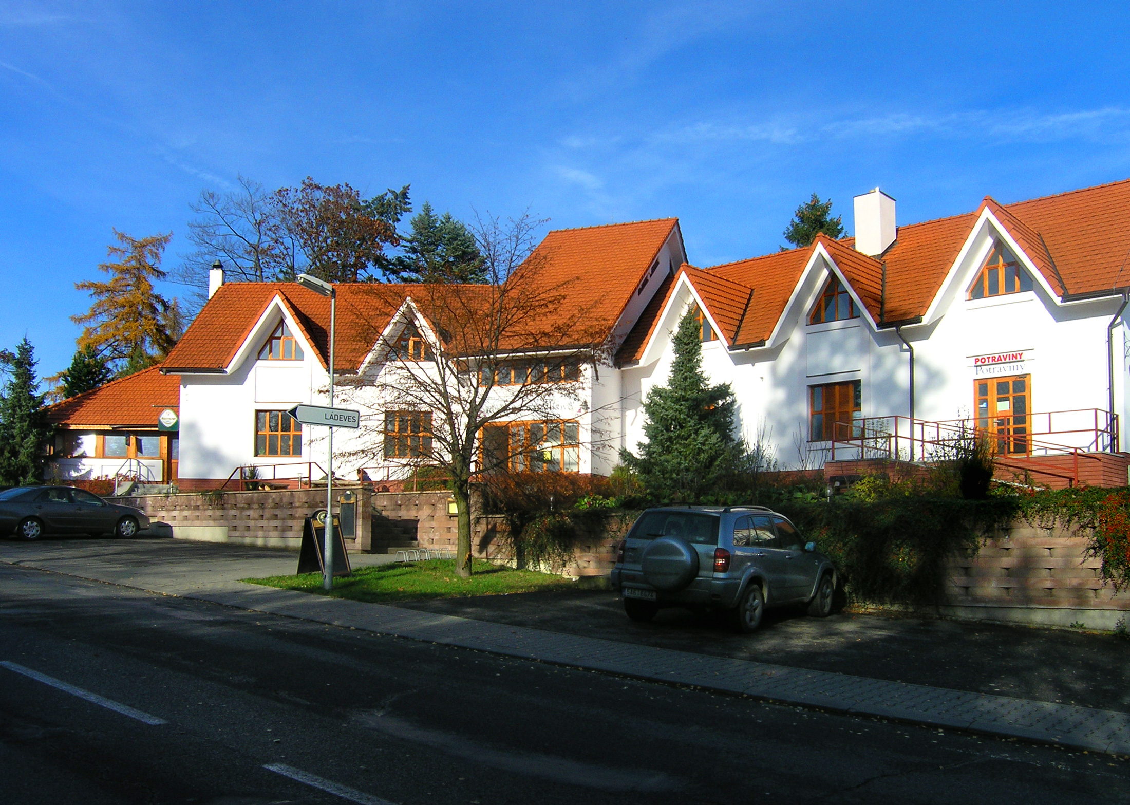 Pod Vlkovou pub in Ládví, part of Kamenice village, Czech Republic